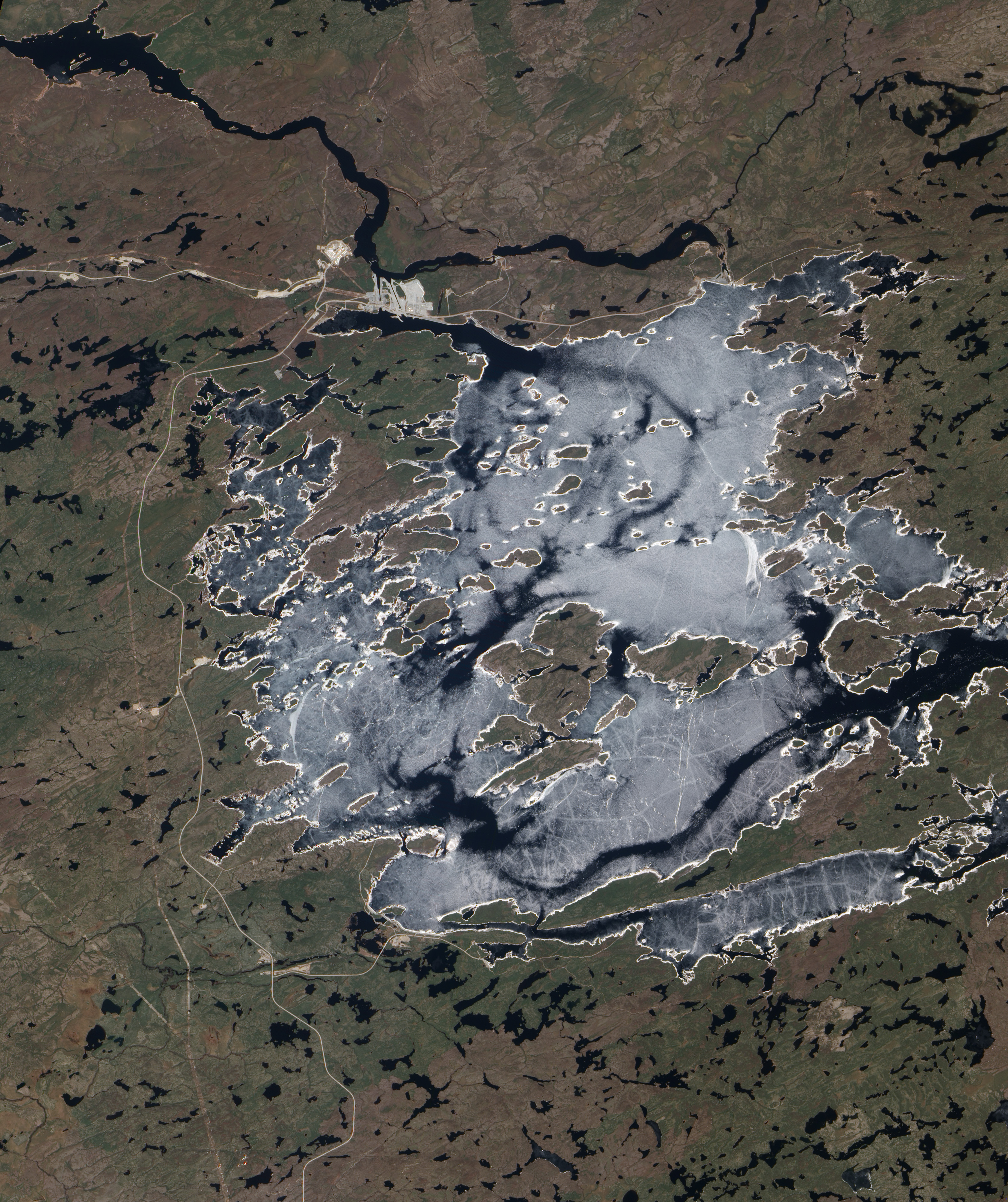 Wide-area view of the Eastmain Reservoir. A layer of ice lingers on the reservoir's surface, with areas of open water appearing in darker shades of blue. Cracks on the ice span the reservoir, especially in the south.